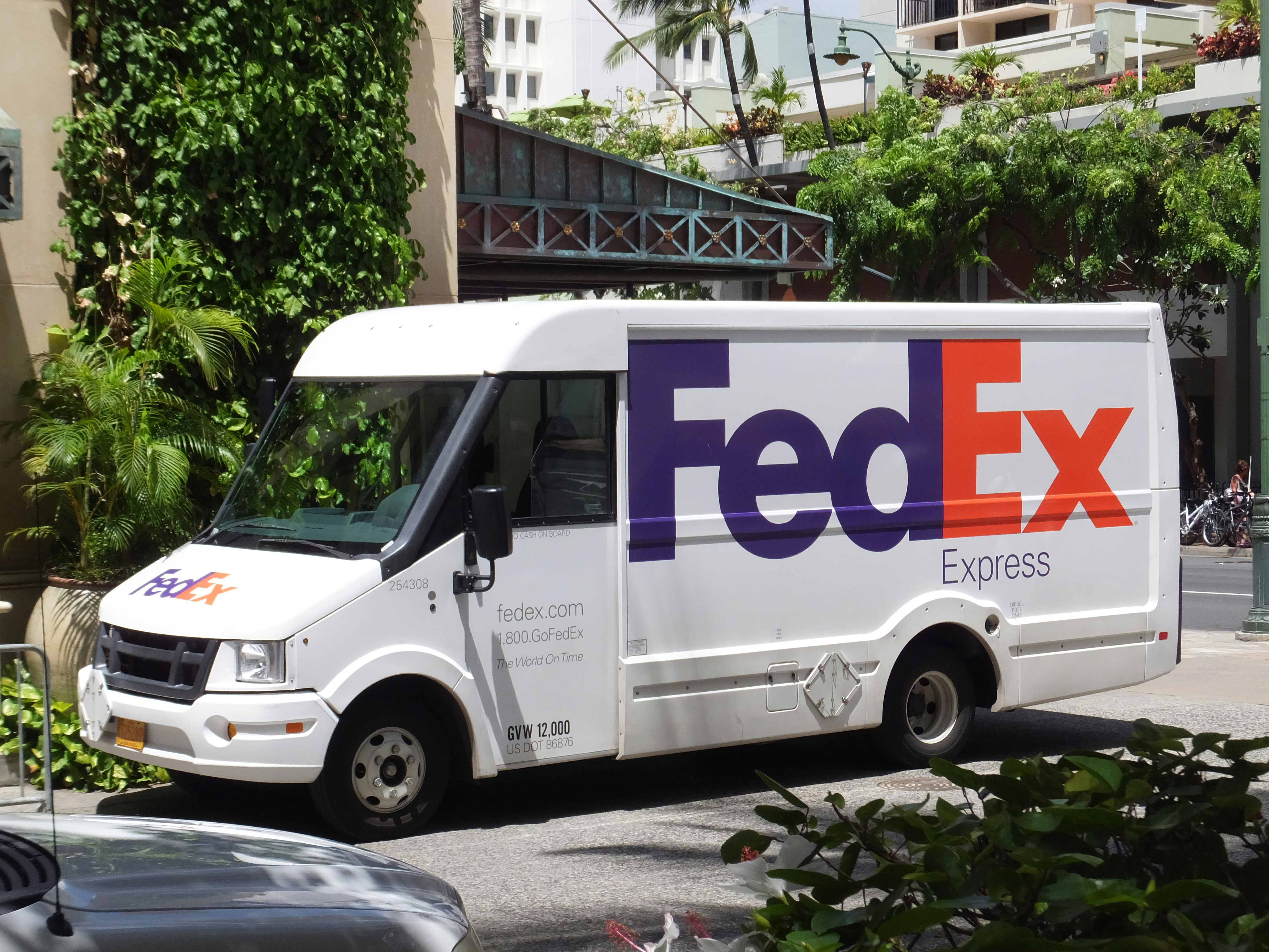 Isuzu Reach, FedEx Delivery Vehicles